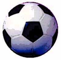 Football